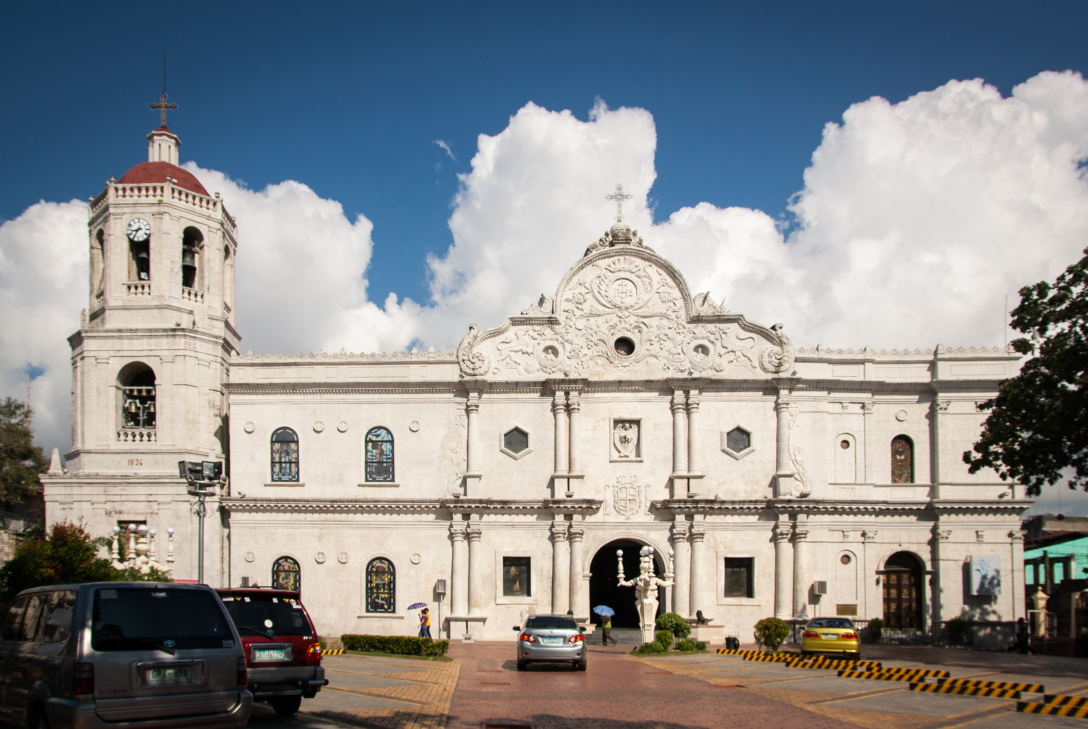 Details of the facade of the Cebu Metropolitan Cathedral. Photo by Arnold Carl Fernan Sancover.